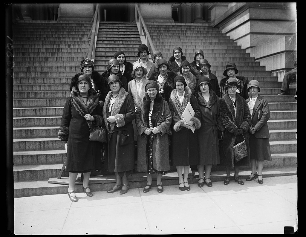 Title: National Association Women Lawyers see President Hoover through four representatives, asking for United States Plenipotentiaries to the Hague to vote for a World Code of equality between men and women. Left to right, front row: Mrs. Olive Stott Gabriel, President, Mrs. James Garfield Riley, Dean Washington College of Law, Miss Laura Berrien, and Mrs. Bernita Shelton Matthews, Vice President of the Association [State, War and Navy Building, Washington, D.C.] Creator(s): Harris & Ewing, photographer Date Created/Published: 1930 April 2. Medium: 1 negative : glass ; 4 x 5 in. or smaller Reproduction Number: LC-DIG-hec-35760 (digital file from original negative) Rights Advisory: No known restrictions on publication. For more information, see Harris & Ewing Photographs - Rights and Restrictions Information( Call Number: LC-H2- B-3901 [P&P] Repository: Library of Congress Prints and Photographs Division Washington, D.C. 20540 USA Notes: On sleeve: Watch Your Credit Line. Gift; Harris & Ewing, Inc. 1955. General information about the Harris & Ewing Collection is available at Temp. note: Batch seven.